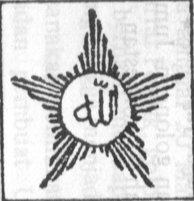 Symbol of the 28 elected political parties in the 1955 Indonesian legislative election. The torn one is from the Indonesia Communist Party.